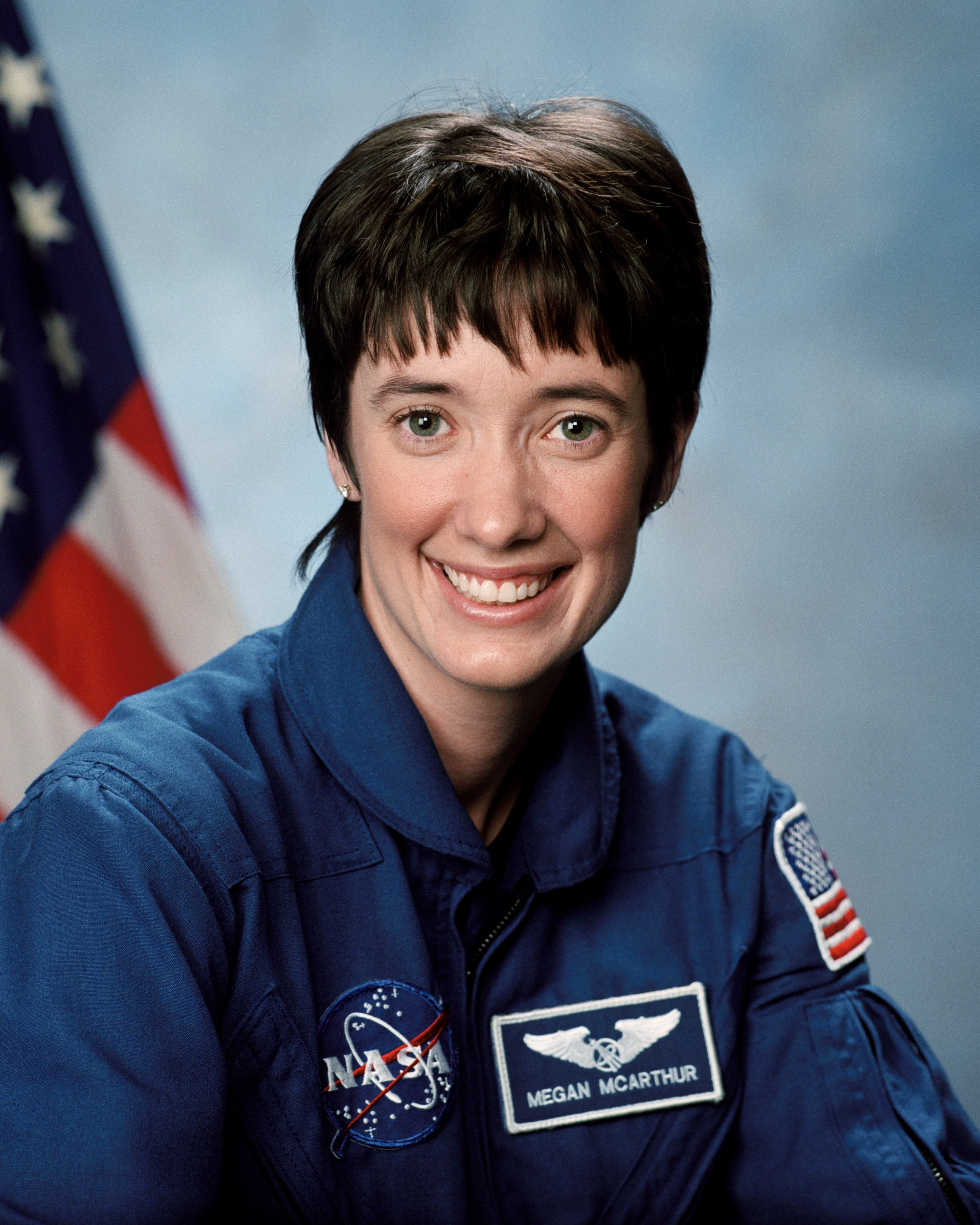 Astronaut K. Megan McArthur